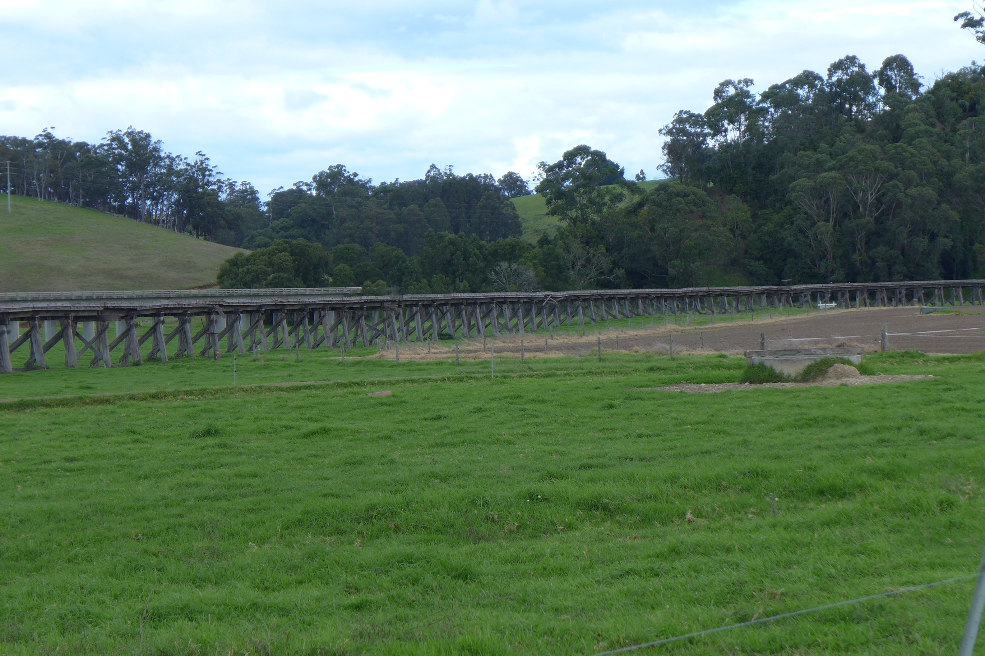 Disused rail bridge at Orbost.